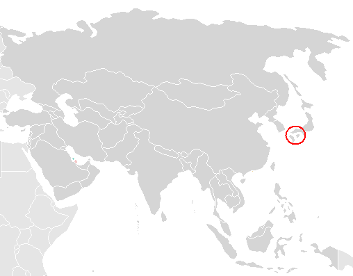 Distribution of Japanese giant salamander (Andrias japonicus).